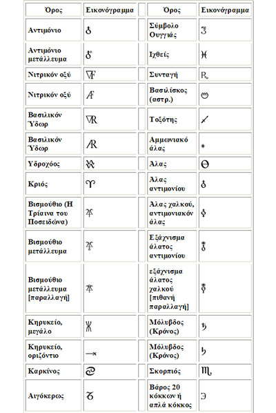 Newton alchemy symbols